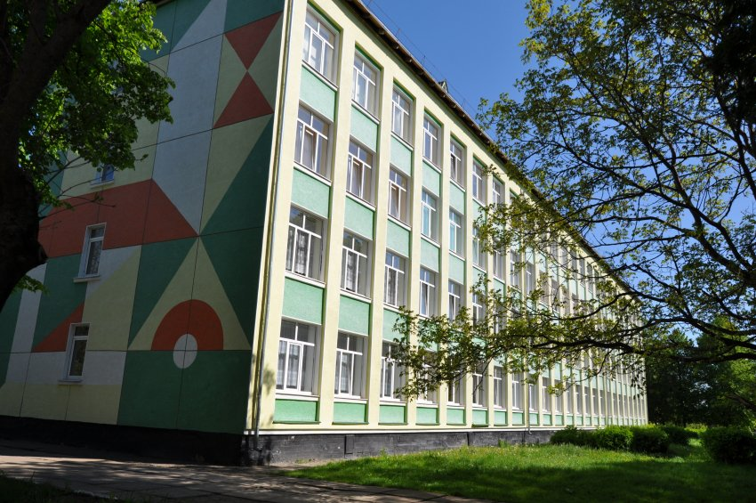 School of general education №6